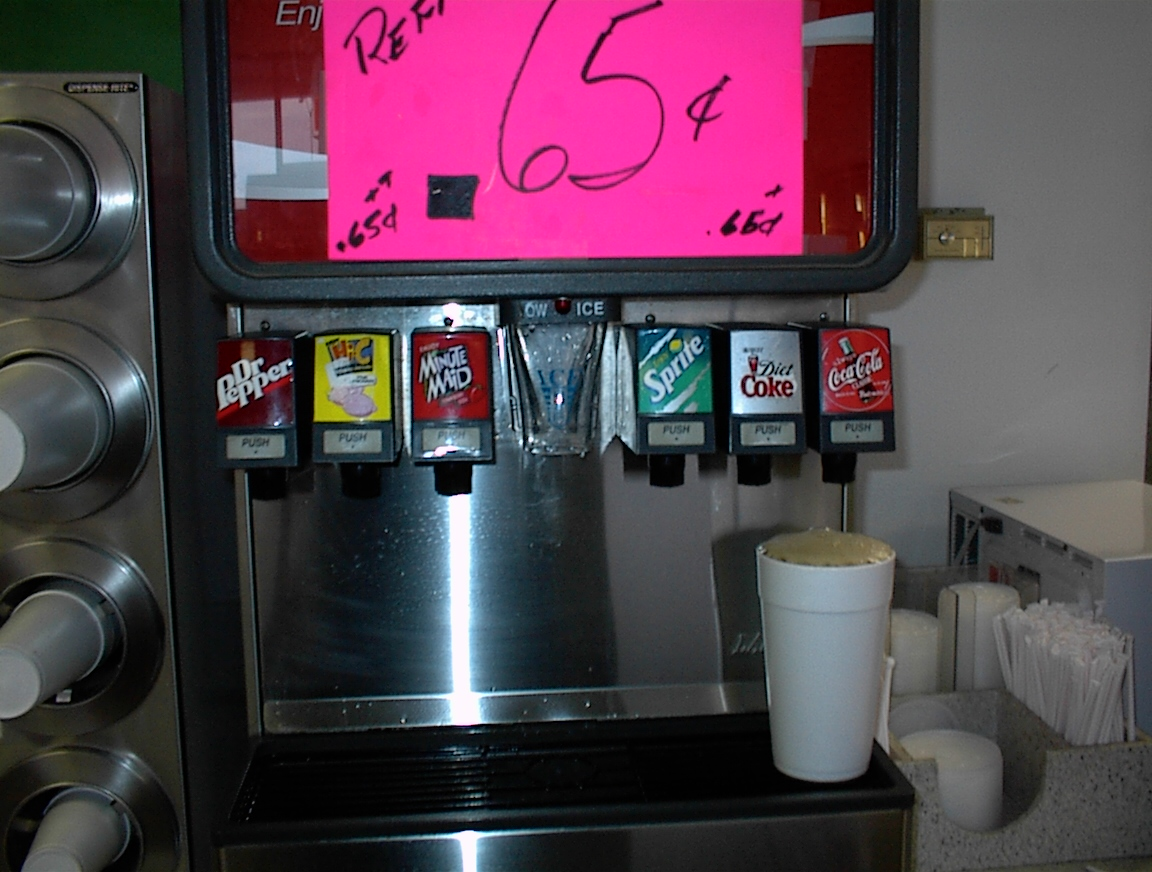 A freshly dispensed Coca-Cola soft drink sits upon a soda fountain in Temple, Texas. The sign reads "Refills 65¢"